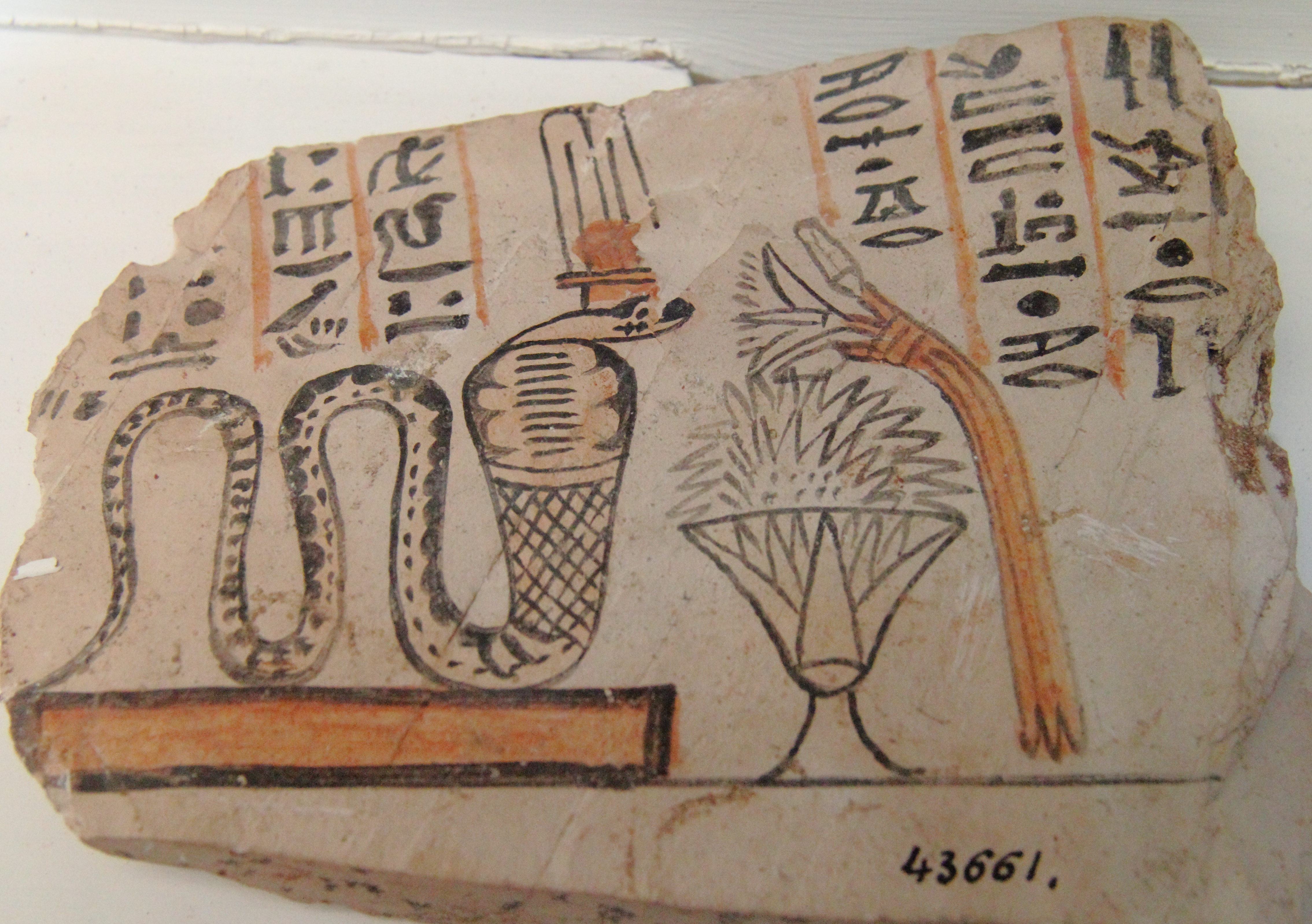 Egyptian Museum, Cairo: Ancient Egyptian ostracon with painting exercise showing cobra-shaped goddess Meretseger